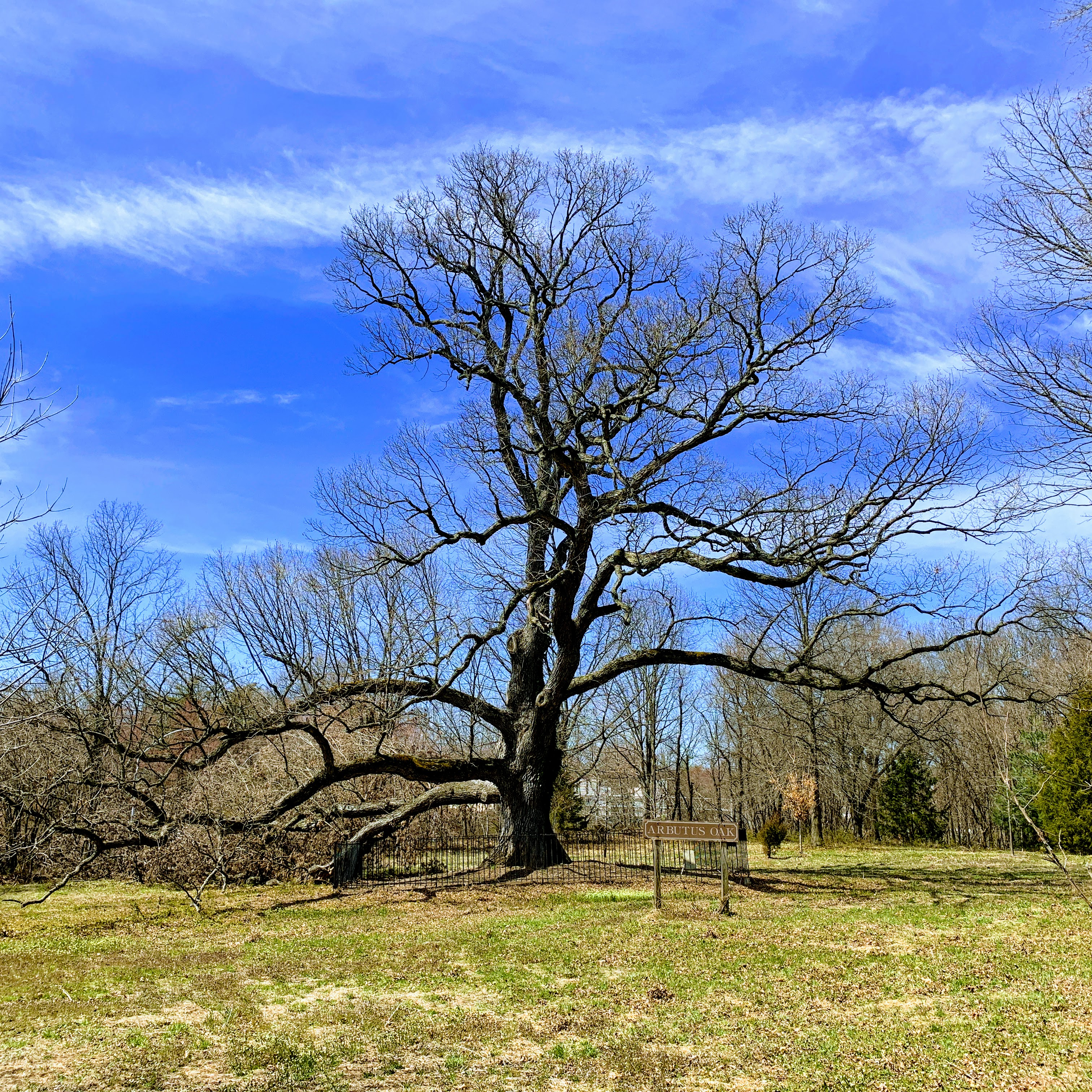 Photo of a historic tree called the Arbutus Oak. The tree is over 70 feet tall. The photo shows the sign for the tree in the foreground. The tree is located in the center of a busy highway interchange and is generally inaccessible to the general public. The author took this photo while working on an official project that took him to this location.